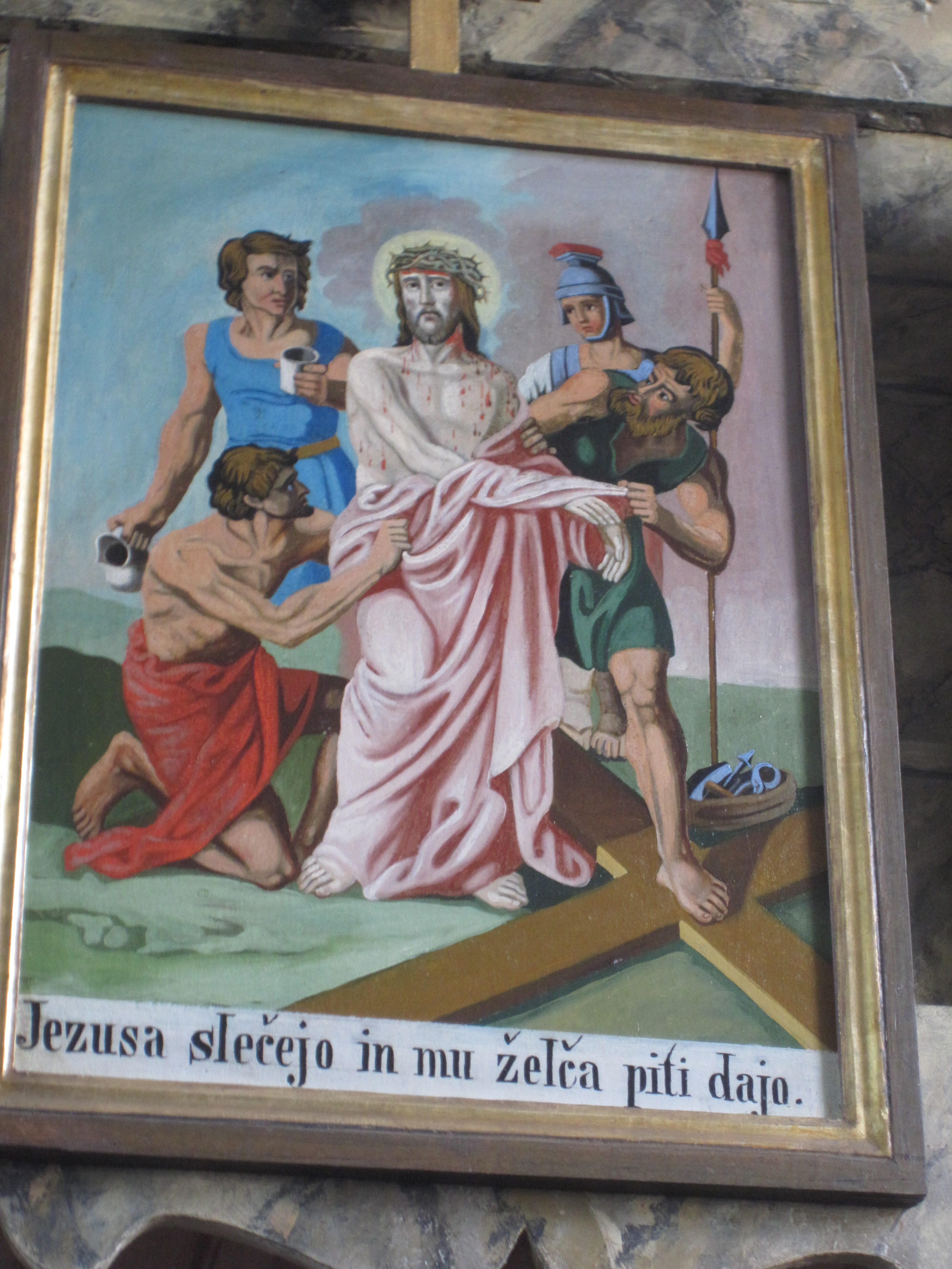 Station of the cross-painting with Slovenian inscription in Poggersdorf/Pokrče in Catinthia